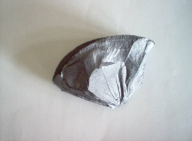 Title: Polycrystal Silicon Desc: Polycrystal Silicon for Czochralski crystal growth process Author: Twisp Date: 25.08.2005